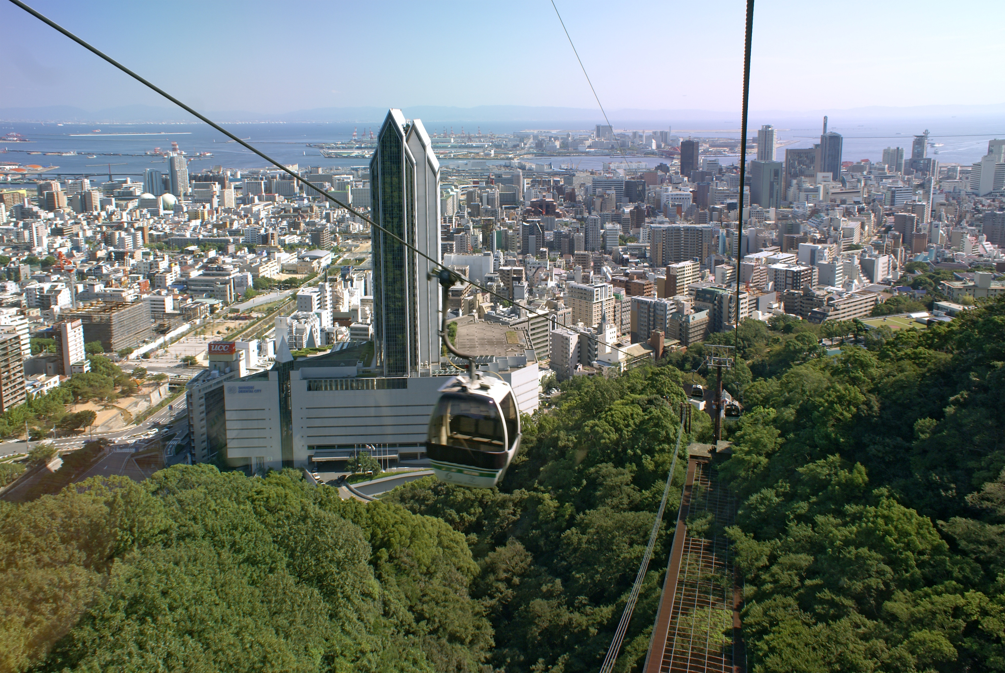 Shin-Kobe Ropeway in Kobe, Hyogo prefecture, Japan